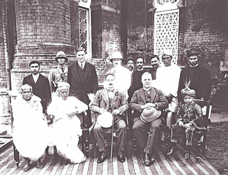 Sitting left to right: Satinath Banerjee; Rai Saheb Jogendra Nath Banerjee; Earl of Ronaldshay, Governor of Bengal; J H Lindsay, ICS, Collector and District Magistrate of Dhaka; and Kumar Ram Narayan Roy of Bhawal, during his investiture ceremony at Northbrook Hall in Dhaka.